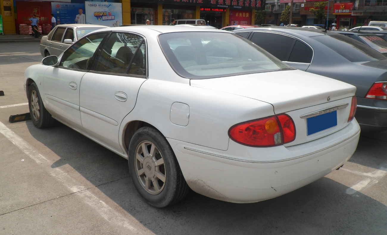 Buick Regal CN photographed in Shanghai, China.